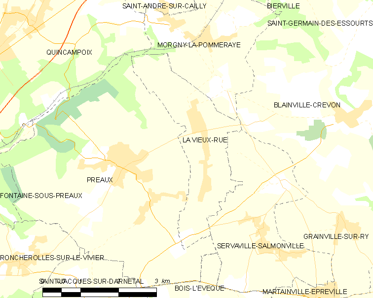 Map of French municipality La Vieux-Rue